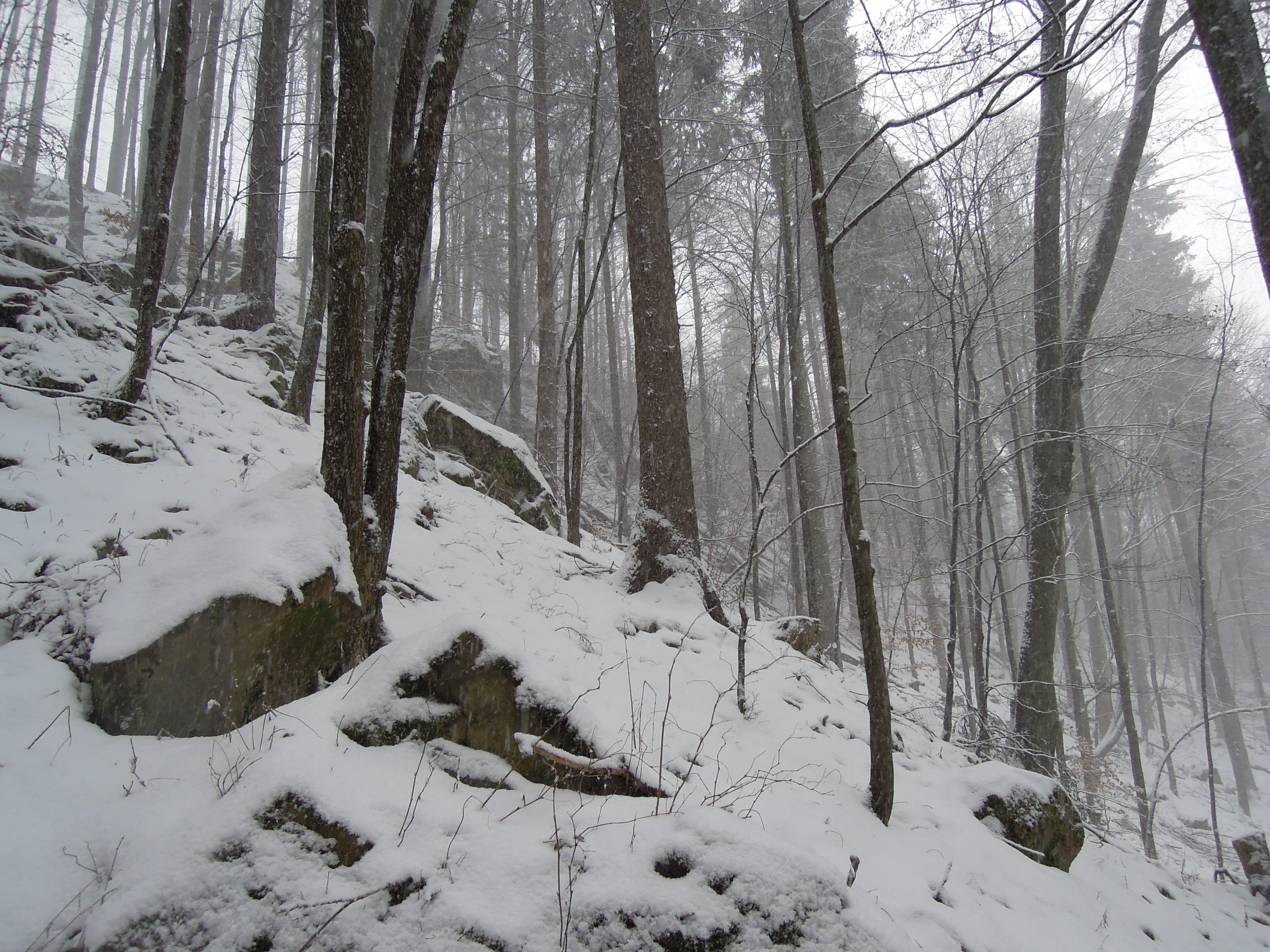 Křížový natural monument, Vsetín District, Zlín Region, Czech Republic